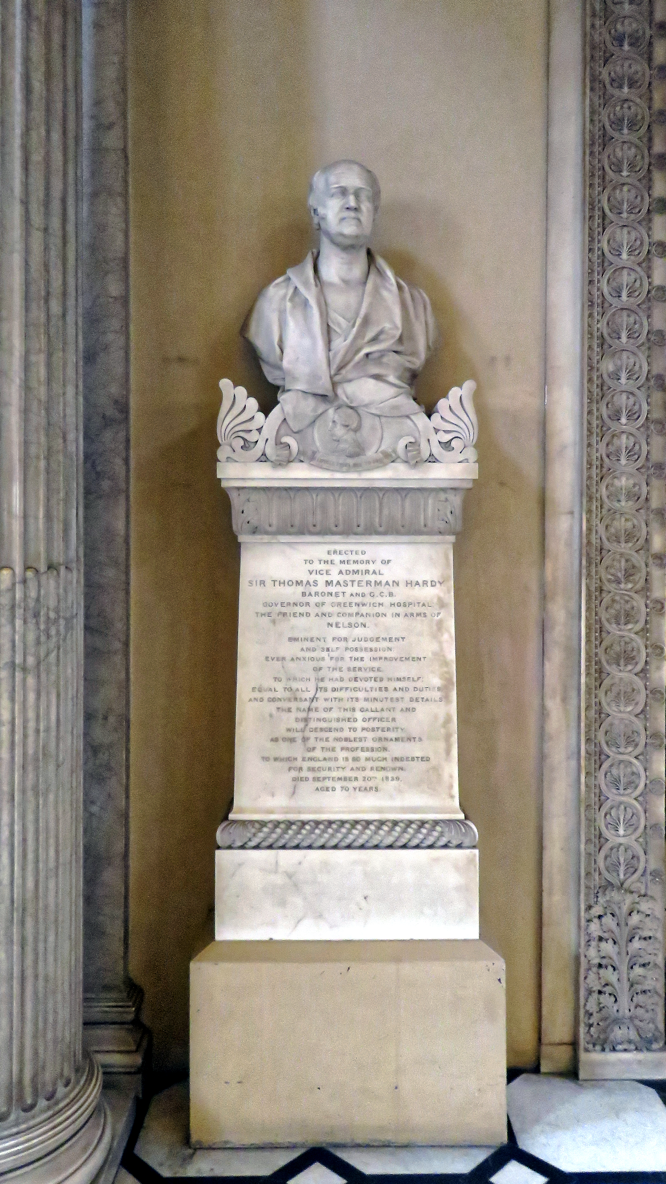 Sir Thomas Hardy (1769 – 1839) memorial monument, in the Chapel of St Peter and St Paul at the Old Royal Naval College, (Royal Naval College), previously Greenwich Hospital, in Greenwich, London, England.Camera: Canon PowerShot SX60 HS.Software: file lens-corrected and optimized with DxO PhotoLab Elite and Viewpoint 3, and further optimized with Adobe Photoshop CS2.